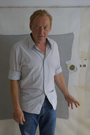 Rainer Dissel (born October 10, 1953 in Gelsenkirchen) is a German artist